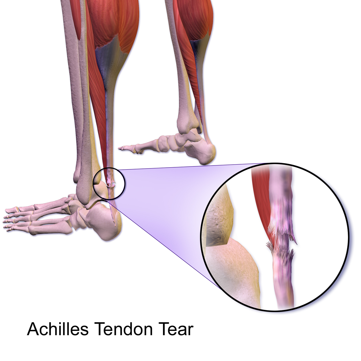 Achilles Tendon Tear. See a full animation of this medical topic.